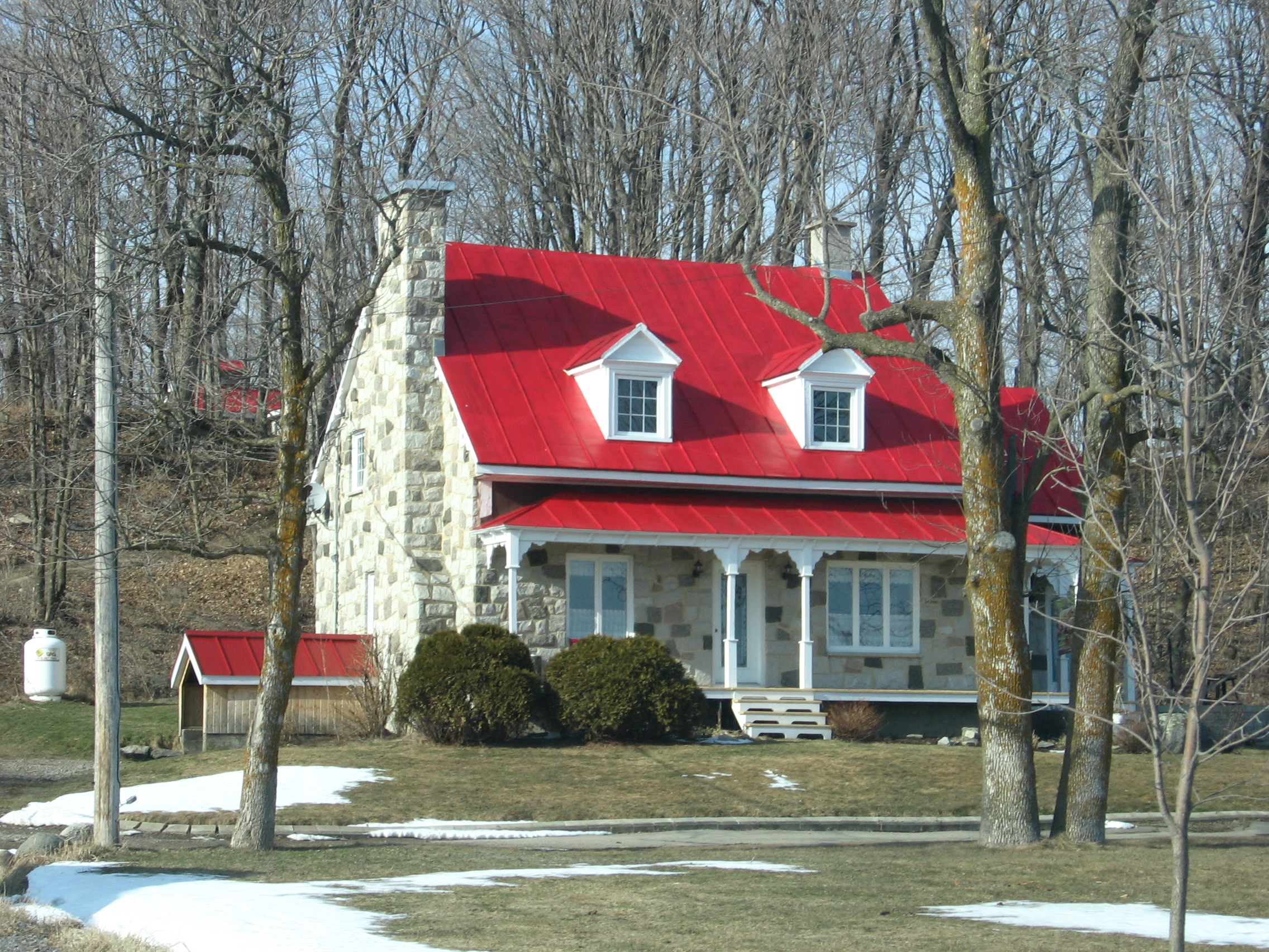 House near Saint-Anne-de-la-Pérade